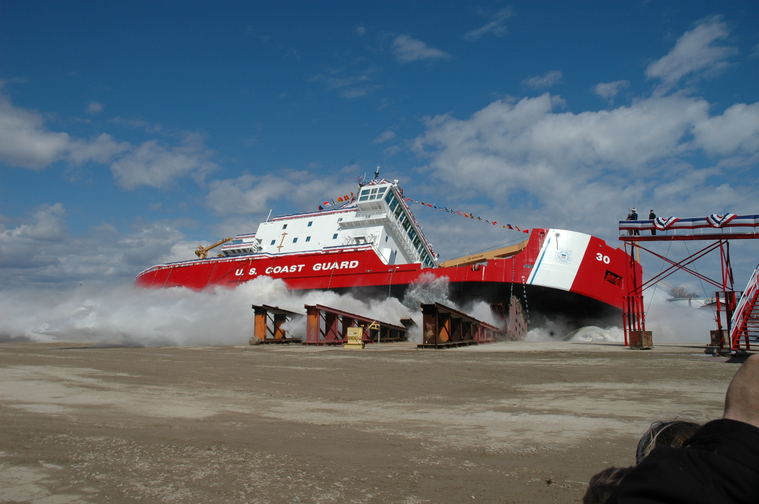 The launching of the USCGC Mackinaw (WLBB-30)